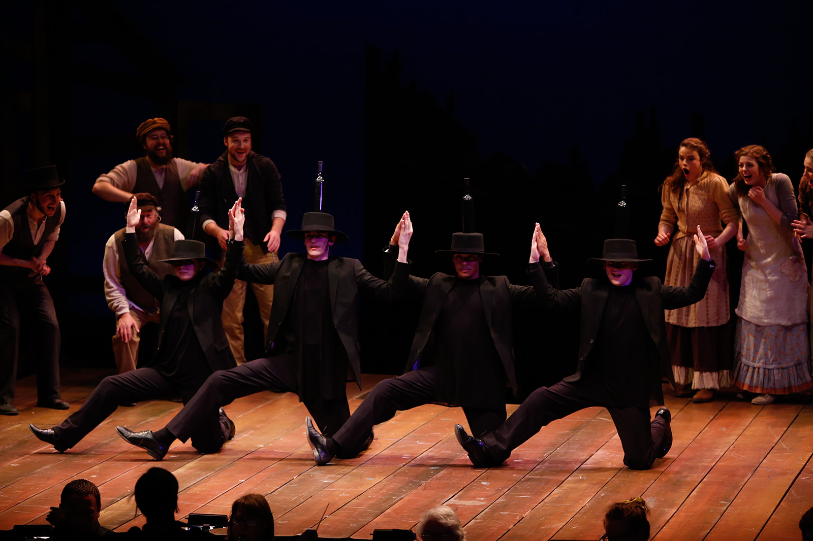 Fiddler On the Roof